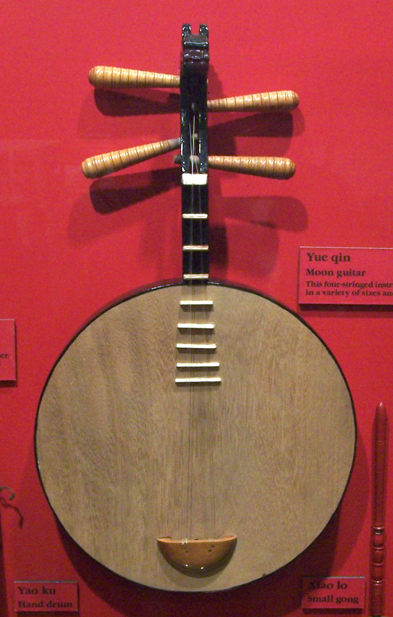 A yue qin or moon guitar on display at the Institute of Texan Cultures, San Antonio, Texas, United States.